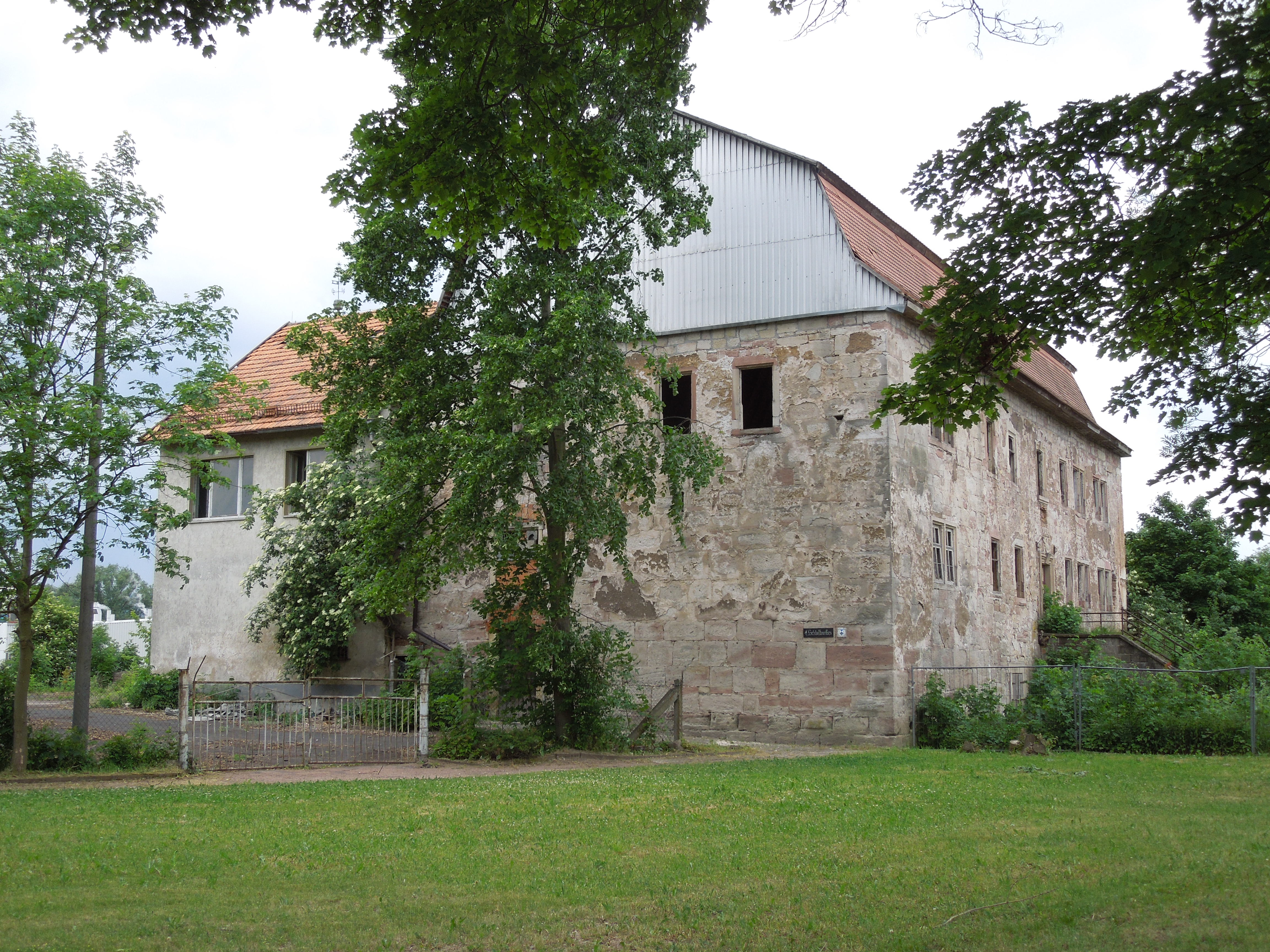 Castle "Steinsches Schloss" in Barchfeld (30 May 2012)